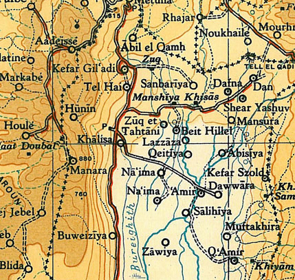 Tel Hai 1946